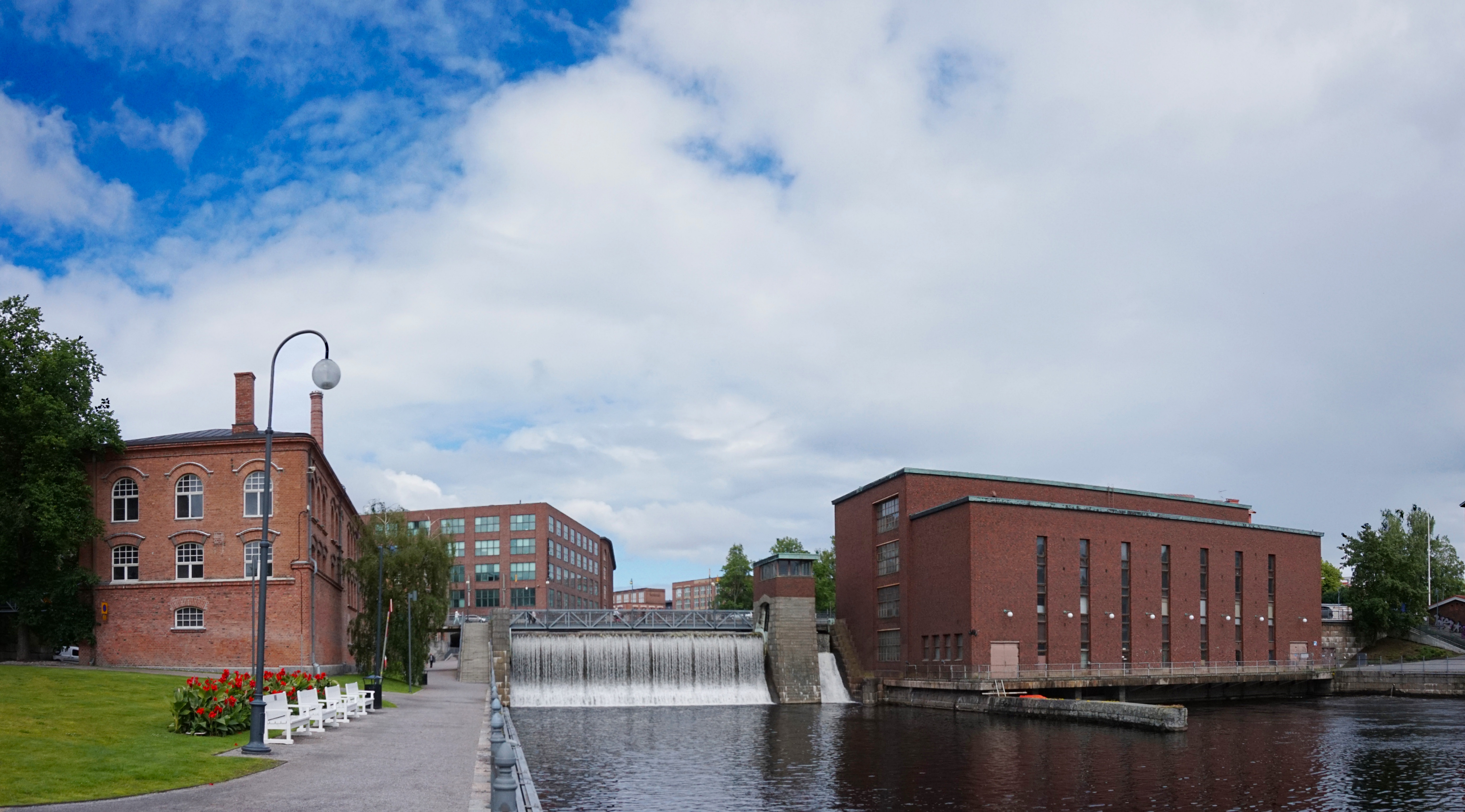 River Tammerkoski in Tampere.This photograph was taken with a Sony ILCE-5000